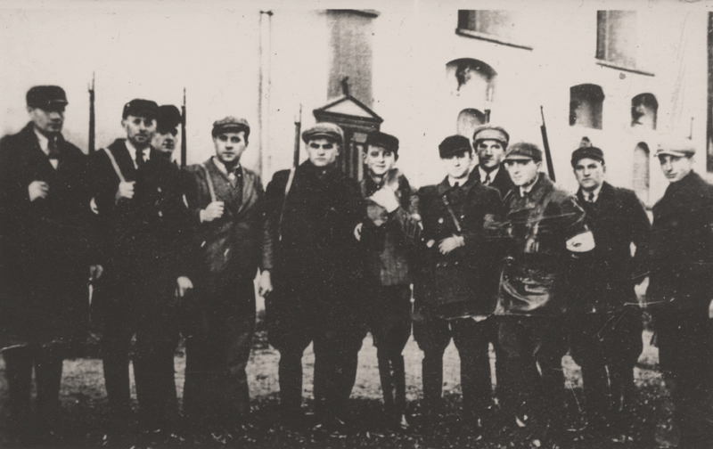 Germans from city Łobżenica (ger. Lobsens) in pre-war Poland - members of so called "Volksdeutscher Selbstschutz". Between September 1939 and April 1940 Selbstschutz - together with other Nazi-German formations - murdered tens of thousands of Poles in Pomerania. The fifth from the left Harry Schulz - deputy commander of Selbstschutz in Łobżenica.